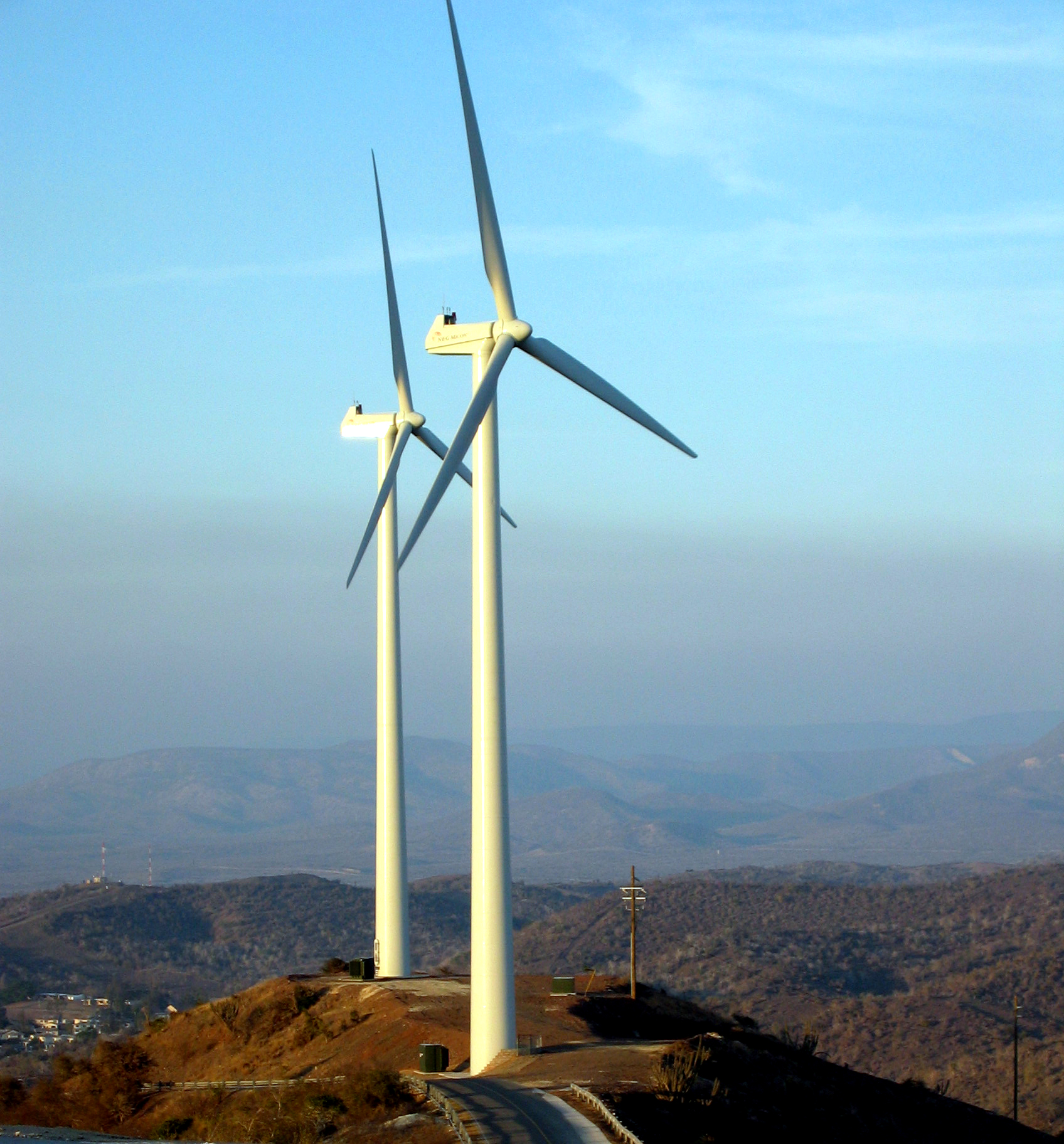 As the world celebrates the 35th anniversary of Earth Day 2005, the Department of the Navy (DON) debuted its largest wind energy project to date--four 275-foot wind turbines with blades spanning 177 feet, making them visible throughout the base and surrounding areas of Cuba.Unveiled in a ribbon-cutting ceremony held here today, the wind energy project will save taxpayers $1.2 million in annual energy costs, and reduce the consumption of 650,000 gallons of diesel fuel, reduce air pollution annually by 26 tons of sulfur dioxide and 15 tons of nitrous oxide and greenhouse gas emissions by 13 million pounds per year.